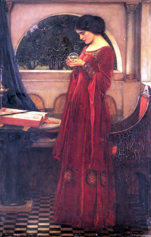 John William Waterhouse's art